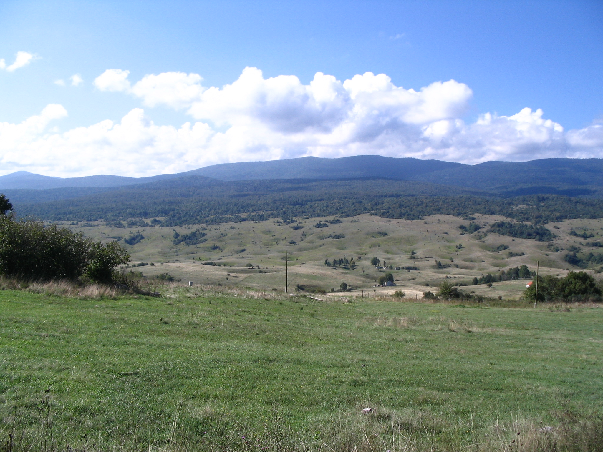 Bravsko field